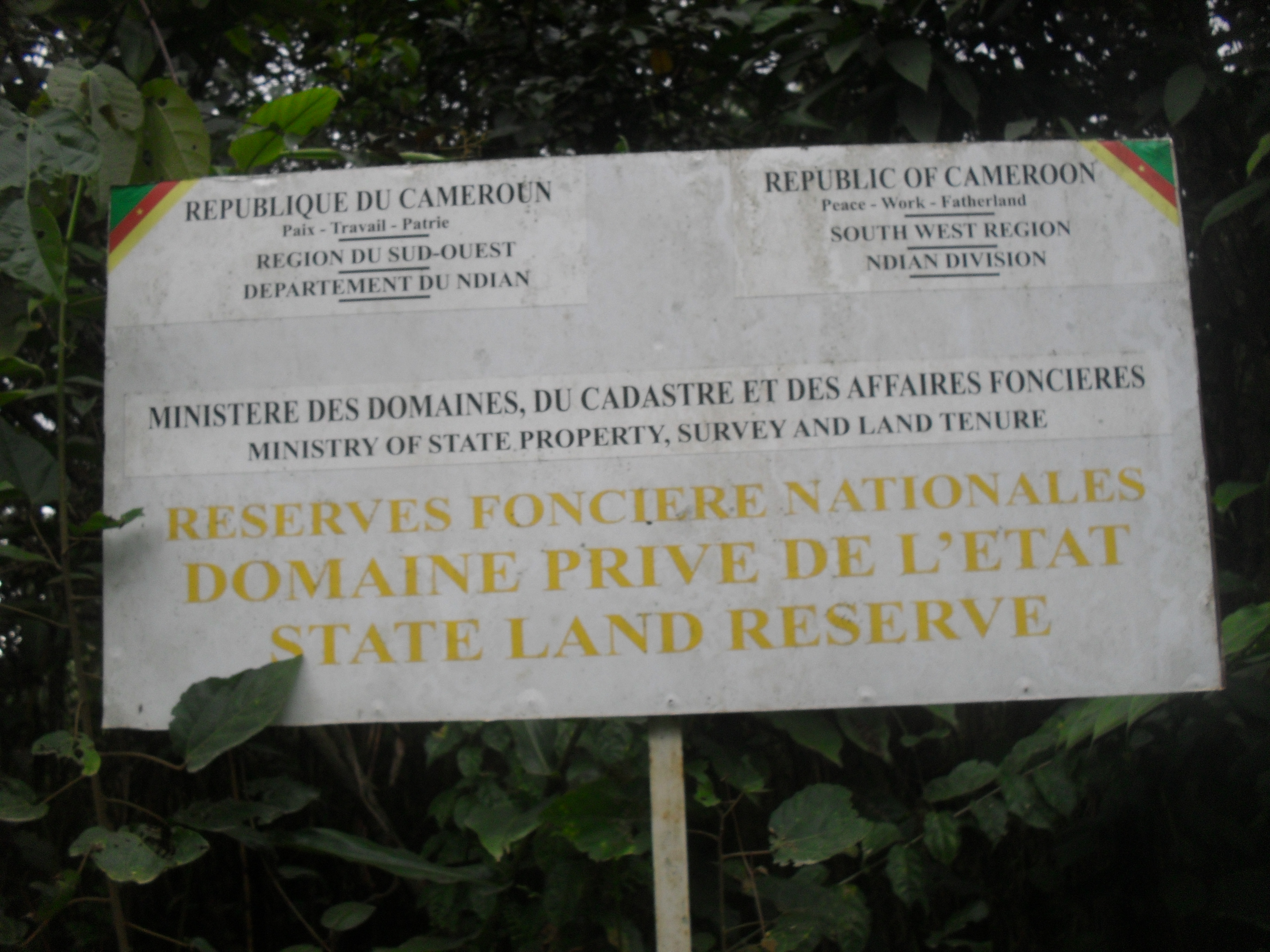 This Rumpi Hills Forest Reserve Sign Post is located between Iyombo and Ikoi Ngolo in Toko subdivision-Ndian Division of southwest Cameroon